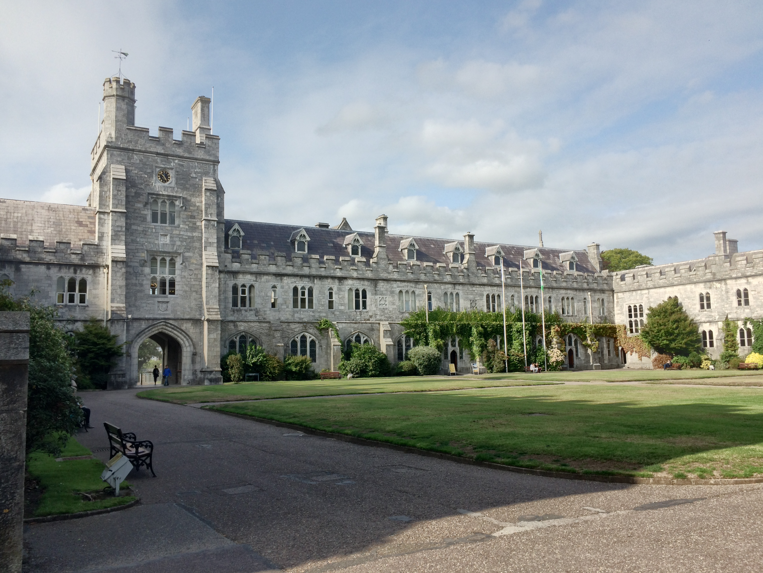 County Cork, University College Cork. Wikidata has entry Q1574185 with data related to this item.